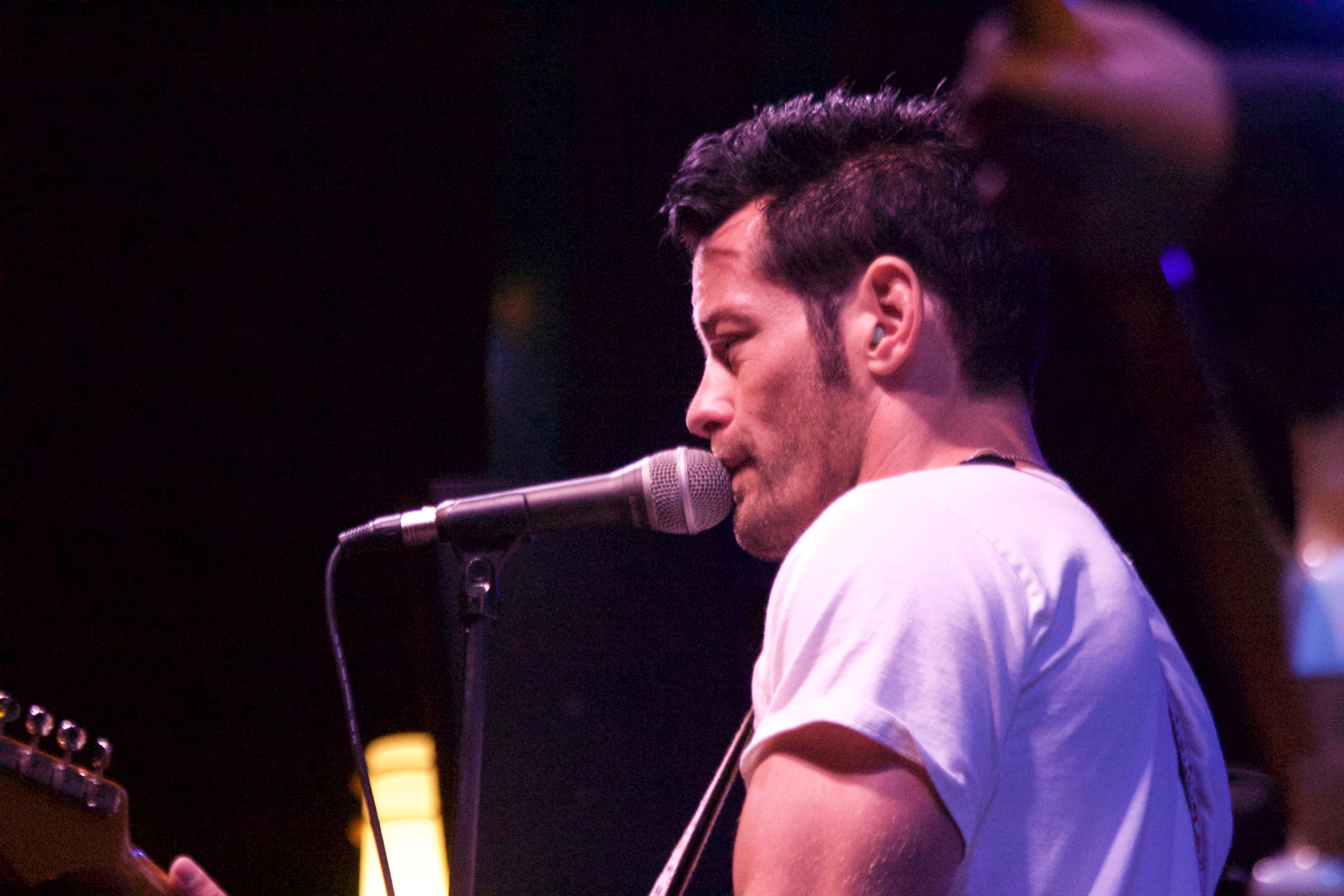 Ry Bradley singing